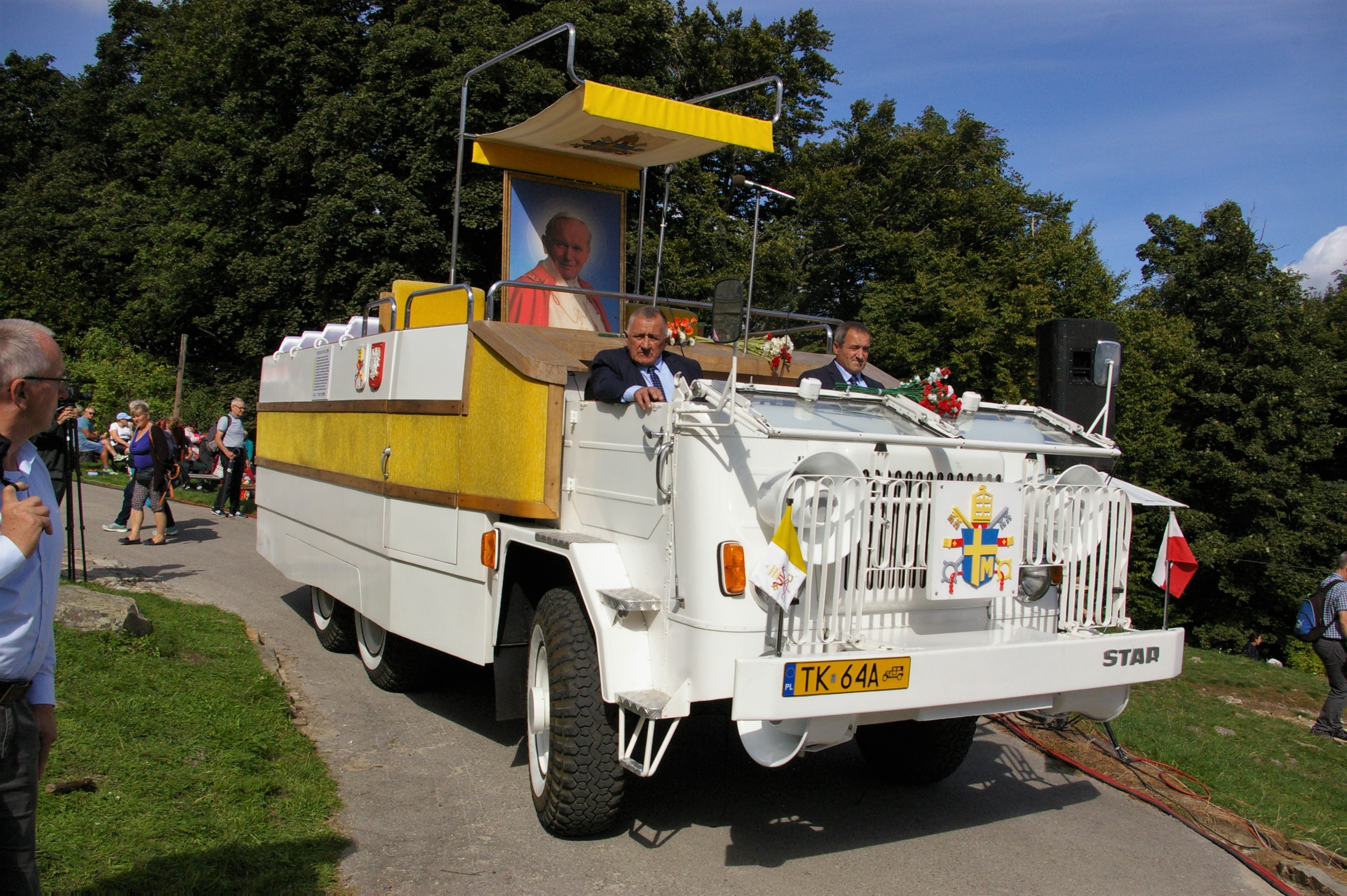 Papamobile Star 660 - a restored papal car JP2 designed and made in the spring of 1979 at the Przemysłowy Instytut Motoryzacji in Warsaw for the first pilgrimage of Pope John Paul II to Poland. Holy Cross, September 14, 2019.